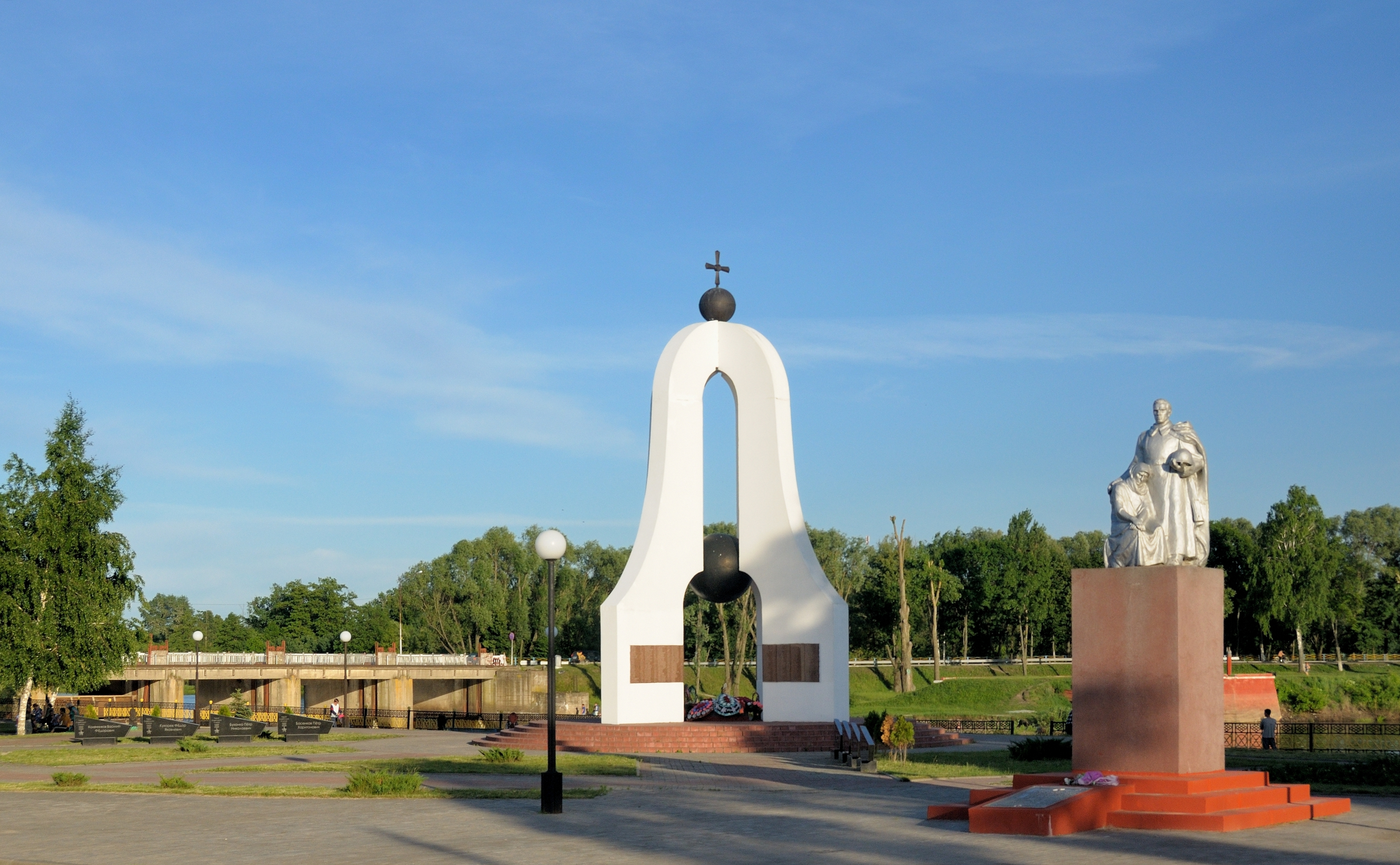 The monument to the fallen in World War II at Dobrush, Belarus